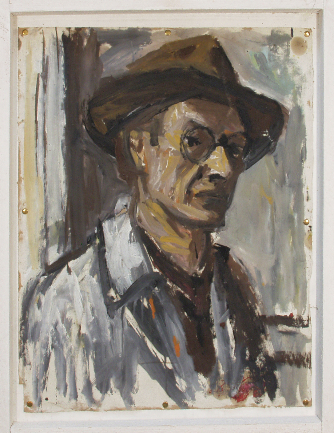 Self-portrait by Hans Faehnle, a german painter. (Date not exact)